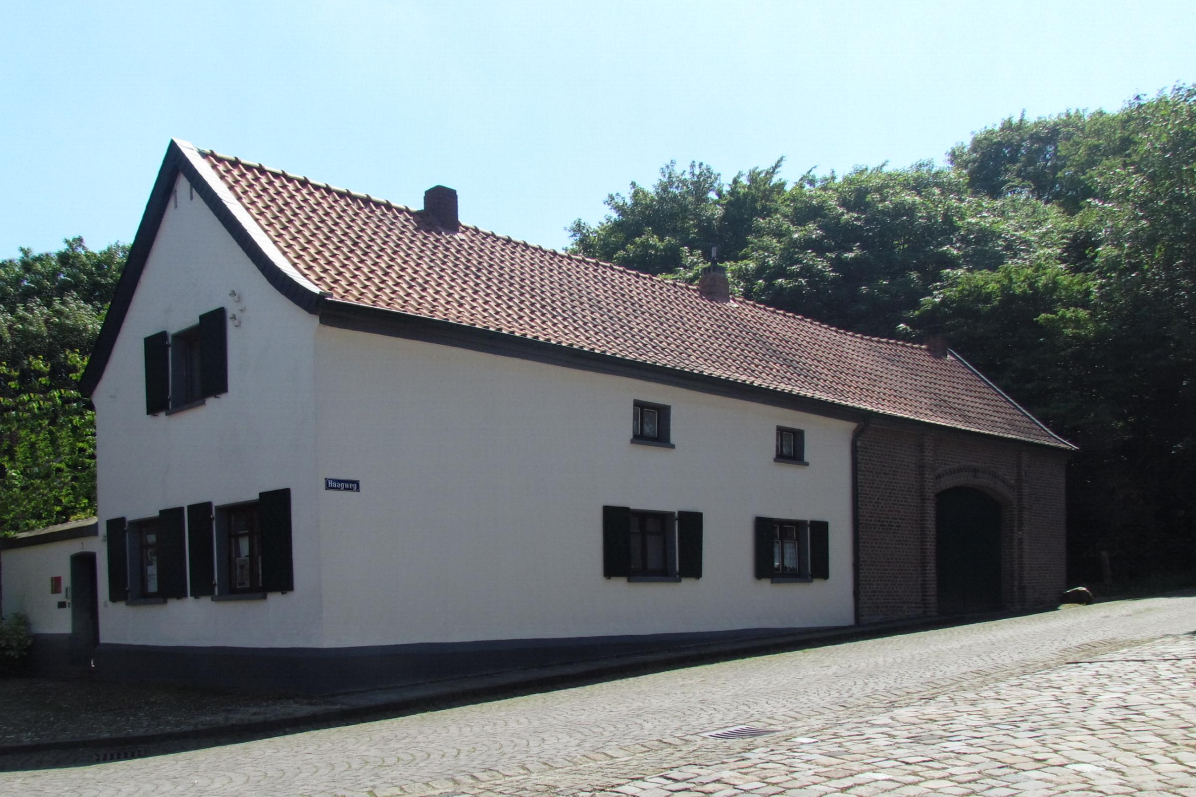 This is a photograph of an architectural monument.It is on the list of cultural monuments of Korschenbroich